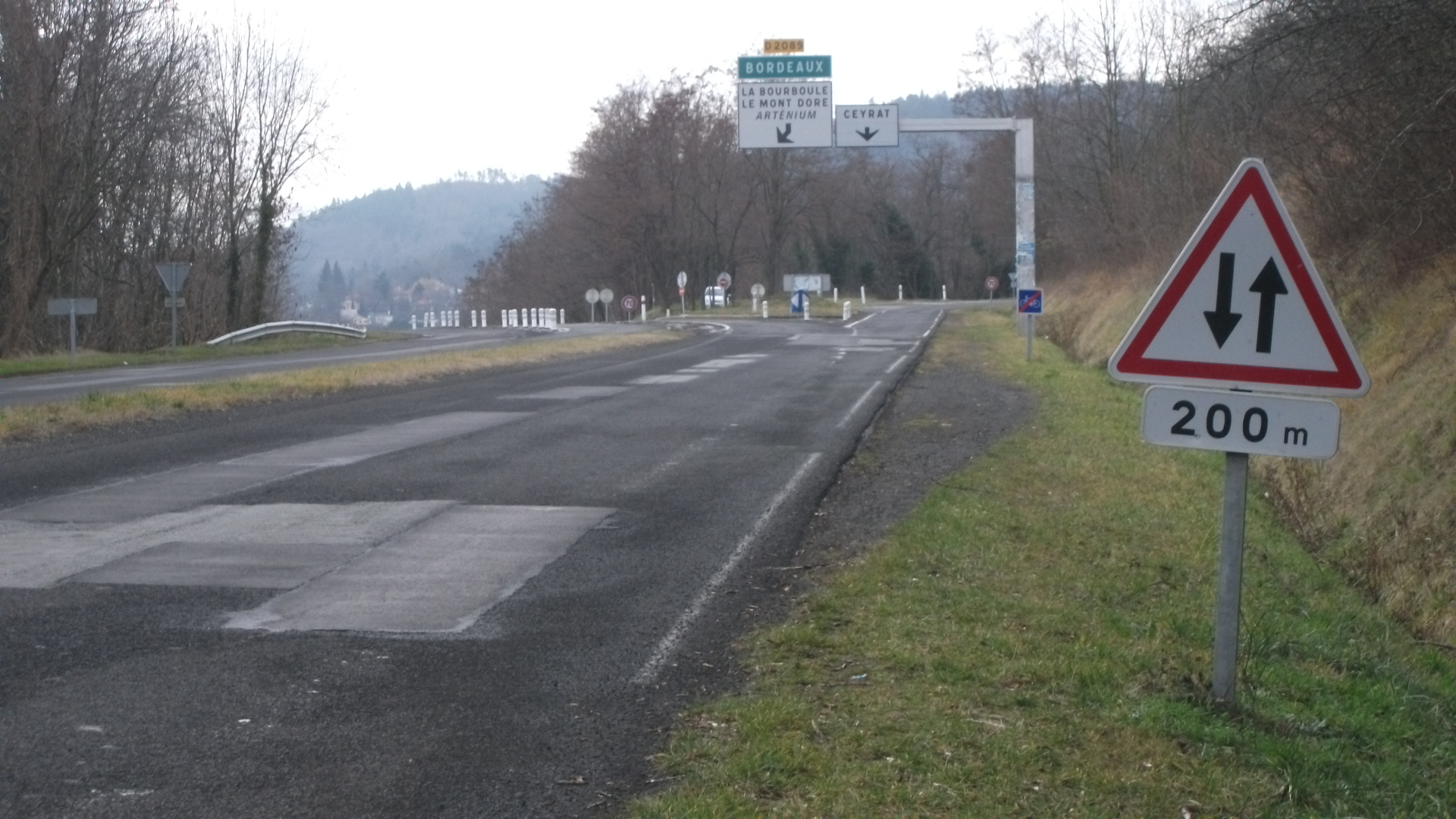 Two-way traffic sign on a road in Ceyrat (Puy-de-Dôme).